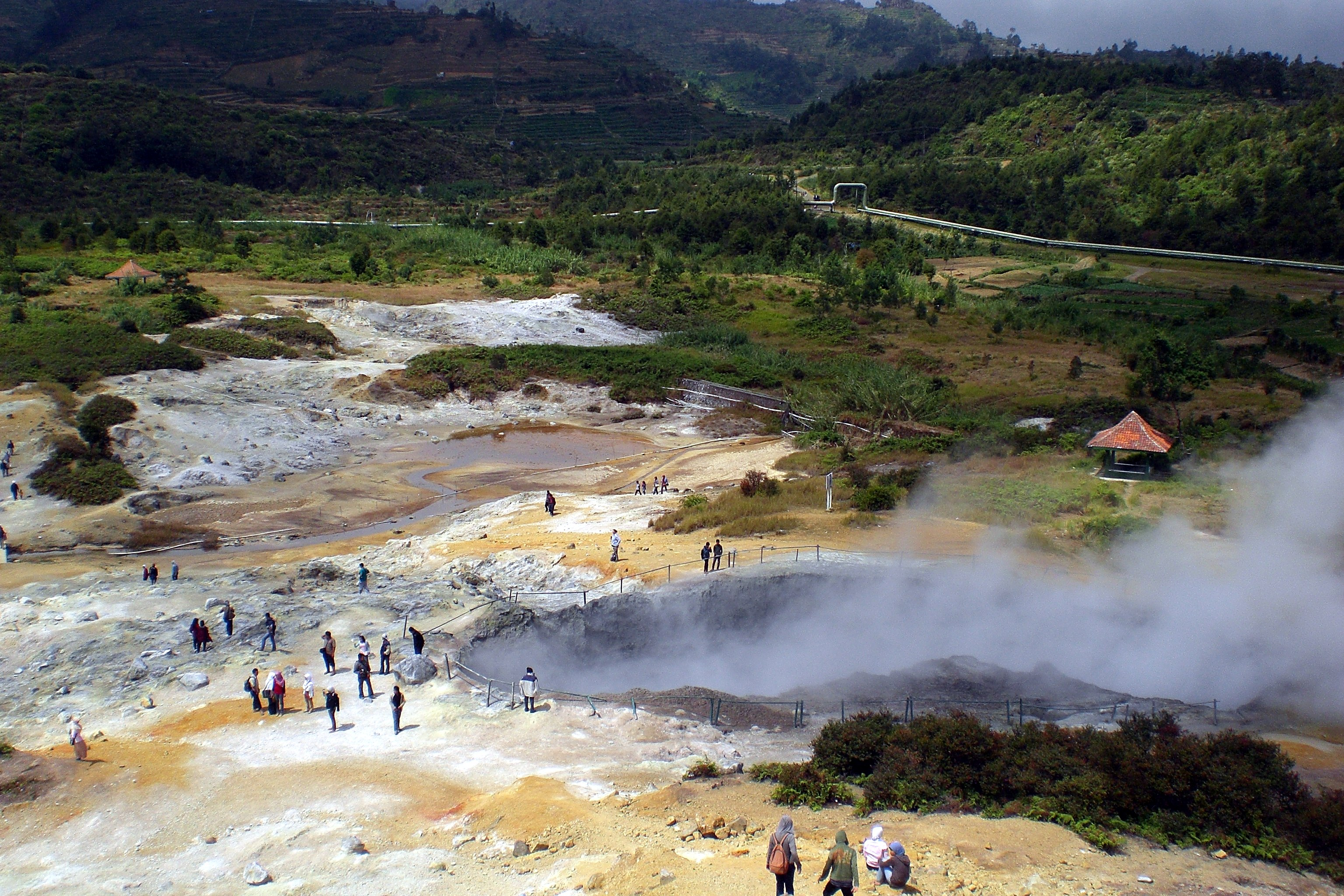 Kawah Sikidang from above